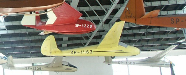 Polish gliders in the Polish Aviation Museum in Kraków. Centre: SZD-12 Mucha 100 (SP-1463), top: SZD-6x Nietoperz (SP-1220), bottom left: SZD-8 Jaskółka (SP-1335), right: SZD-17x Jaskółka L (SP-1506)